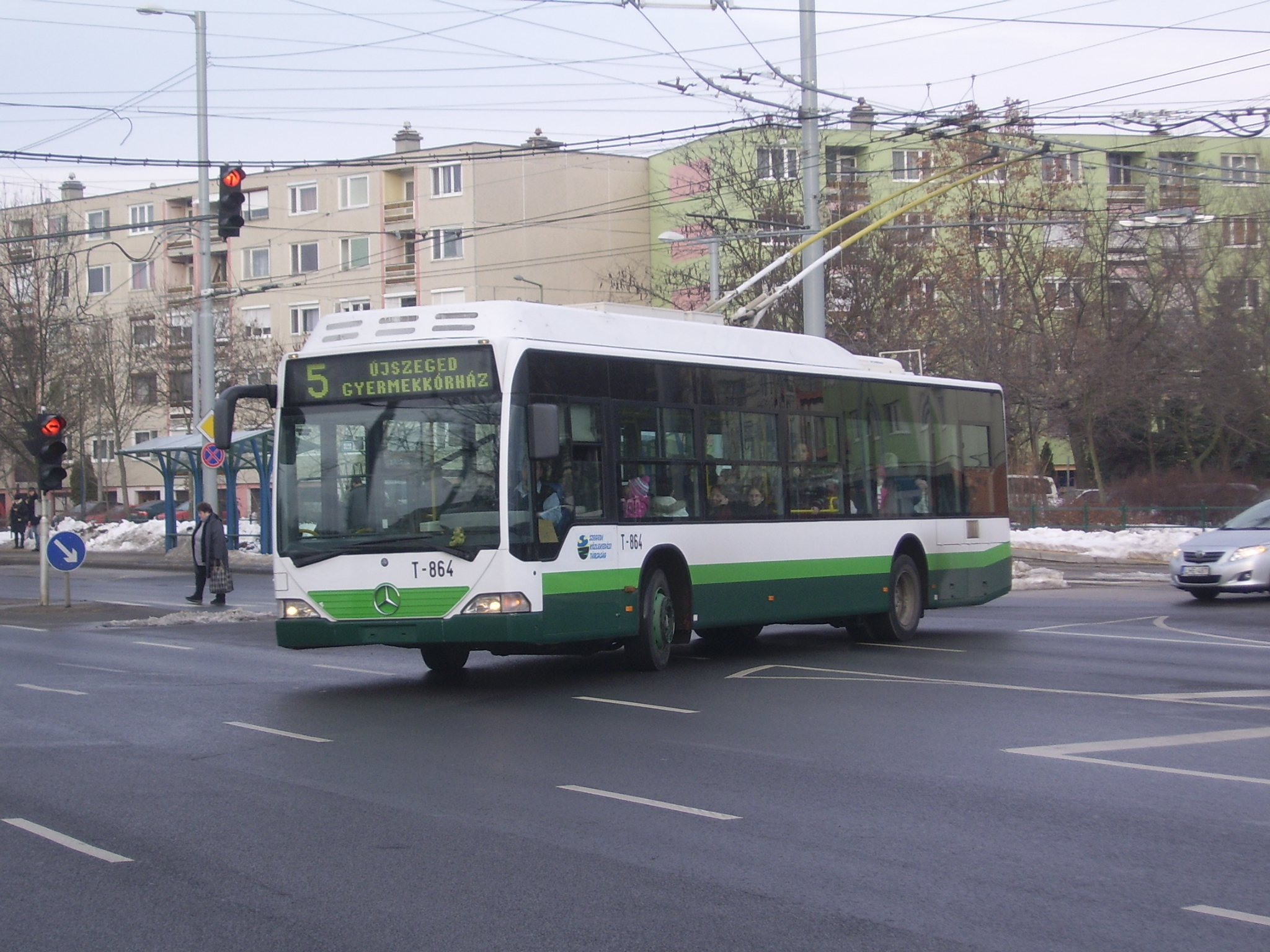 Trolley line 5 in Szeged. The route of this service changed few days later